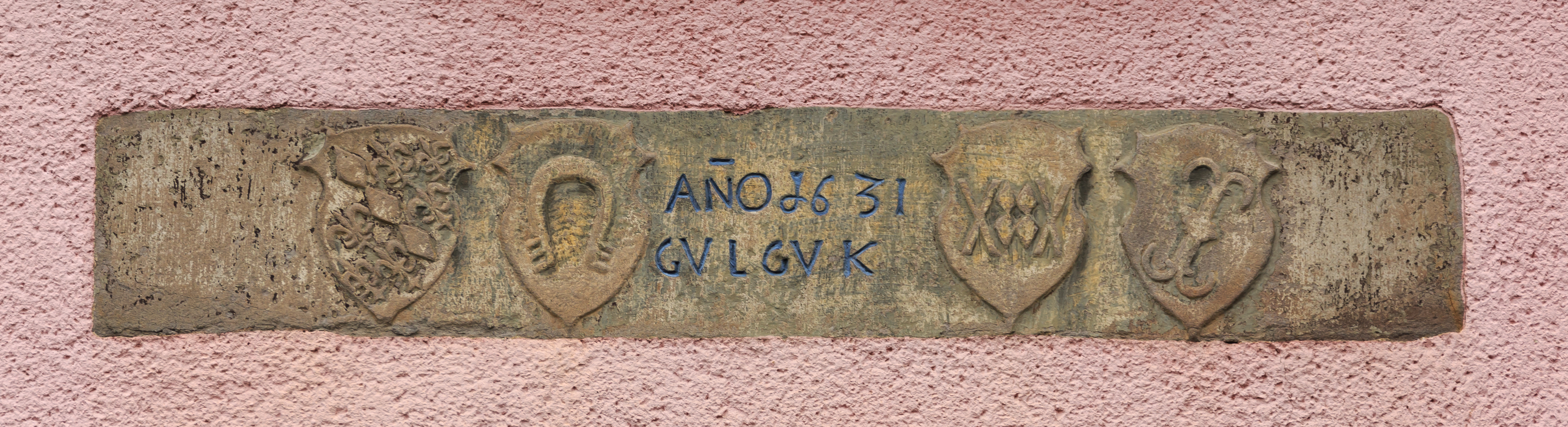 Rösrath, Germany: Date stamping over the entry to Haus Stade, listed building No 7 in the monument list of Rösrath